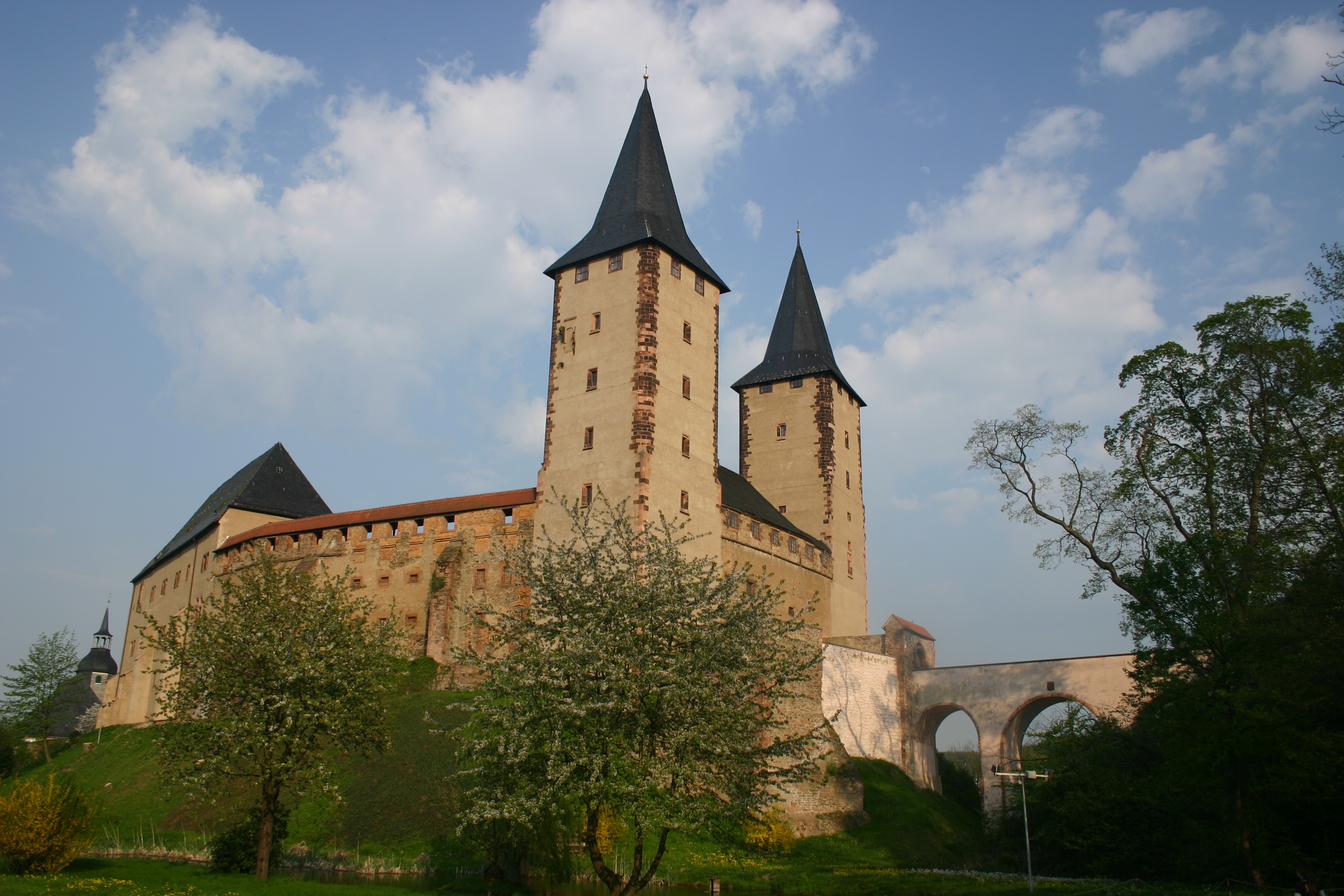 Rochlitz Castle, eastern aspect